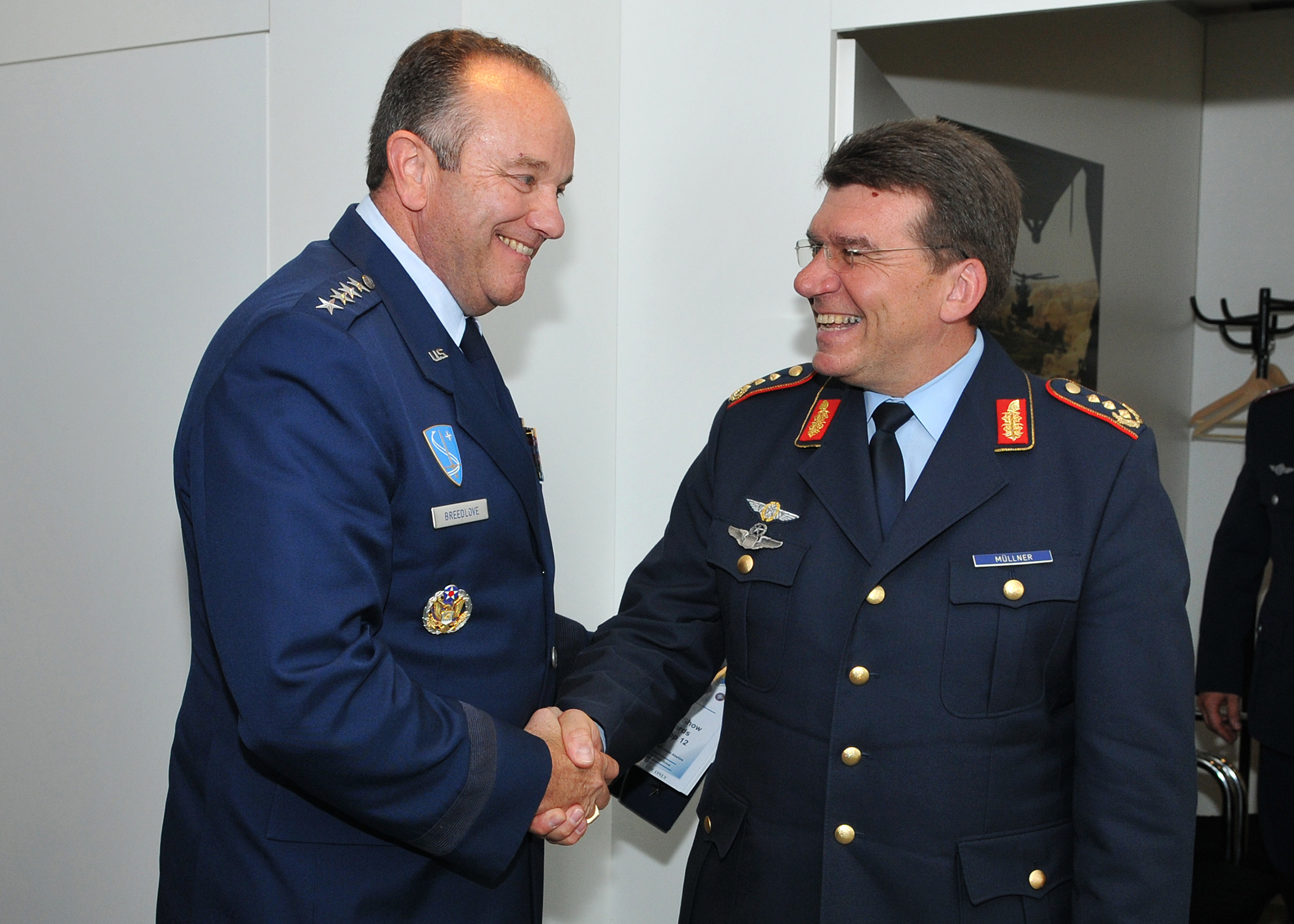 Gen. Philip Breedlove, U.S. Air Forces in Europe and U.S. Air Forces Africa commander, greets German air force Lt. Gen. Karl Müllner, German air force chief of staff, on the opening day of the Berlin Air Show, commonly known as ILA 2012, here Sept 11. ILA 2012 is an international event hosted by Germany and more than 50 U.S. military personnel from bases in Europe and the U.S. are here to support the various U.S. military aircraft and equipment on display. The U.S. aircraft featured at ILA 2012 are the UH-60 Black Hawk, UH-72A Lakota, F-16C Fighting Falcon, C-17 Globemaster III, and C-130 Hercules.